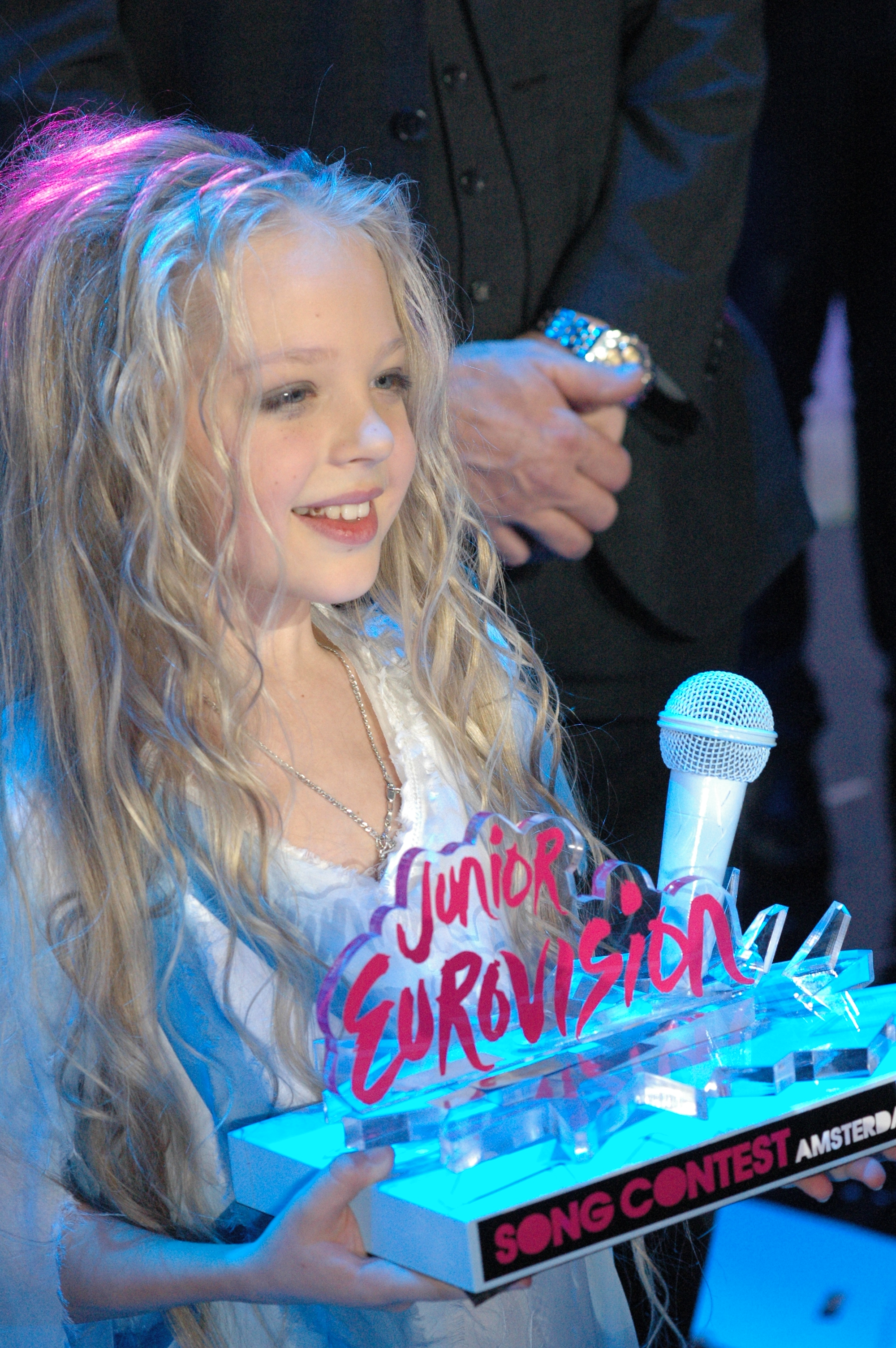 Anastasiya Petryk. Winner of Junior Eurovision 2012